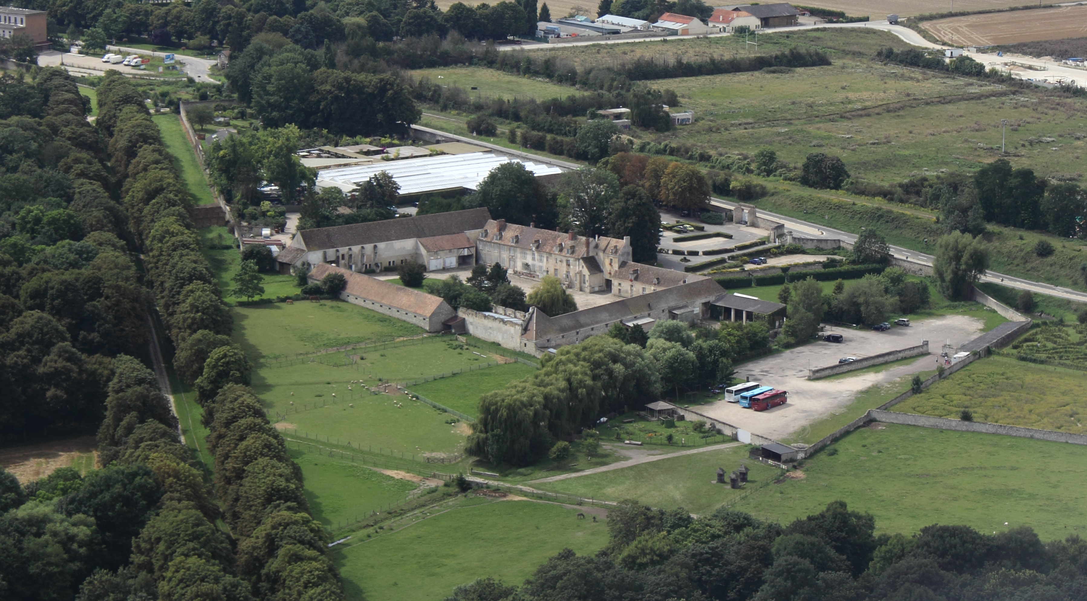 Aerial view of the Gally Farm from the park of the château de Versailles